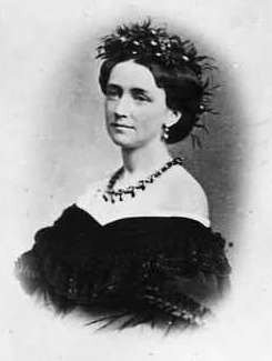 Louise of Hesse-Kassel